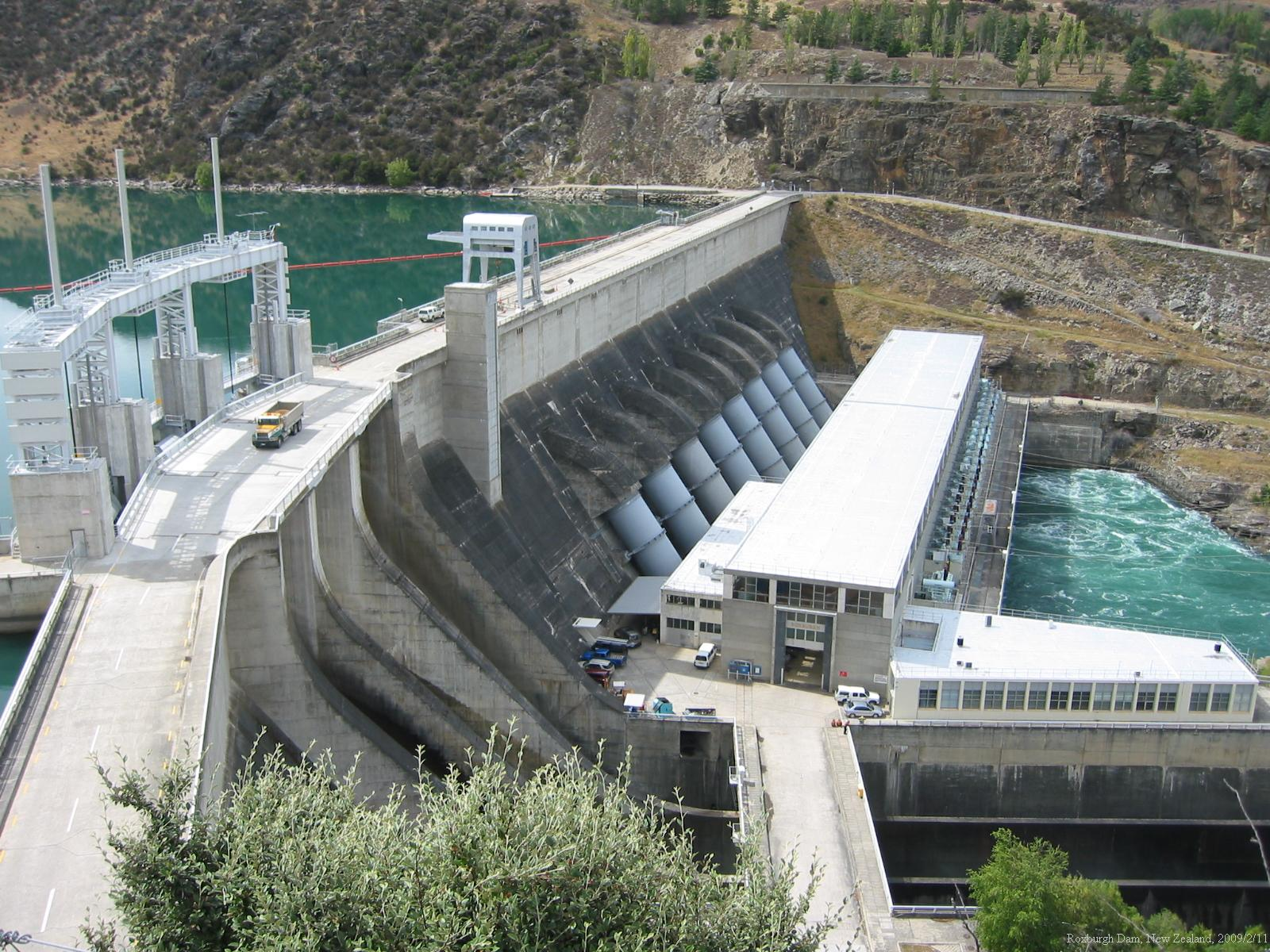 Outdoor view of the dam and power station at Roxburgh, Central Otago, New Zealand. The eight penstocks are clearly visible.